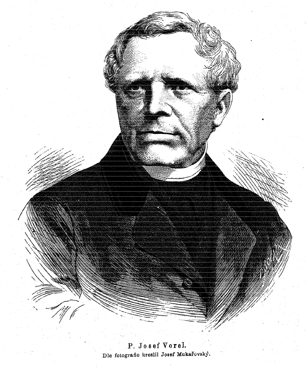 Portrait of Josef Vorel (1801 - 1874), Czech composer of songs.